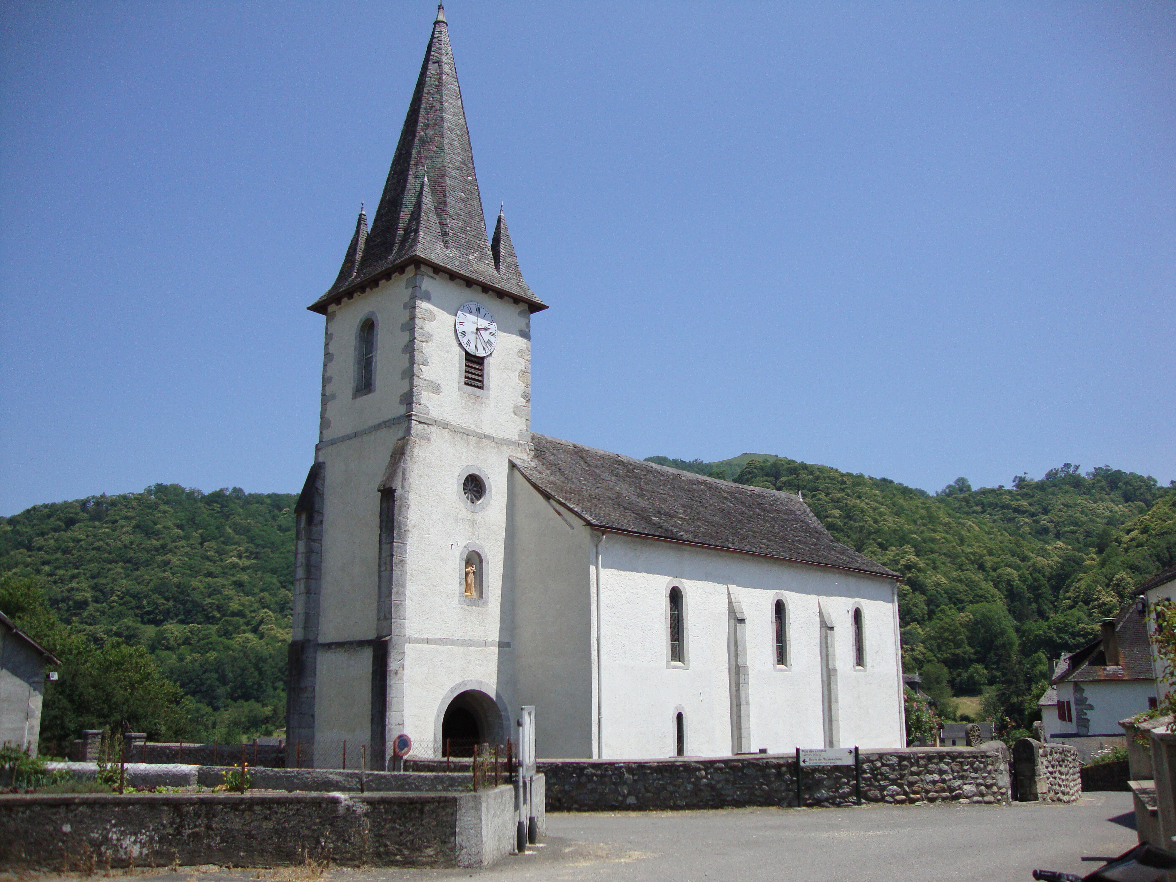 Licq (Licq-Athéry, Pyr-Atl, Fr) Église